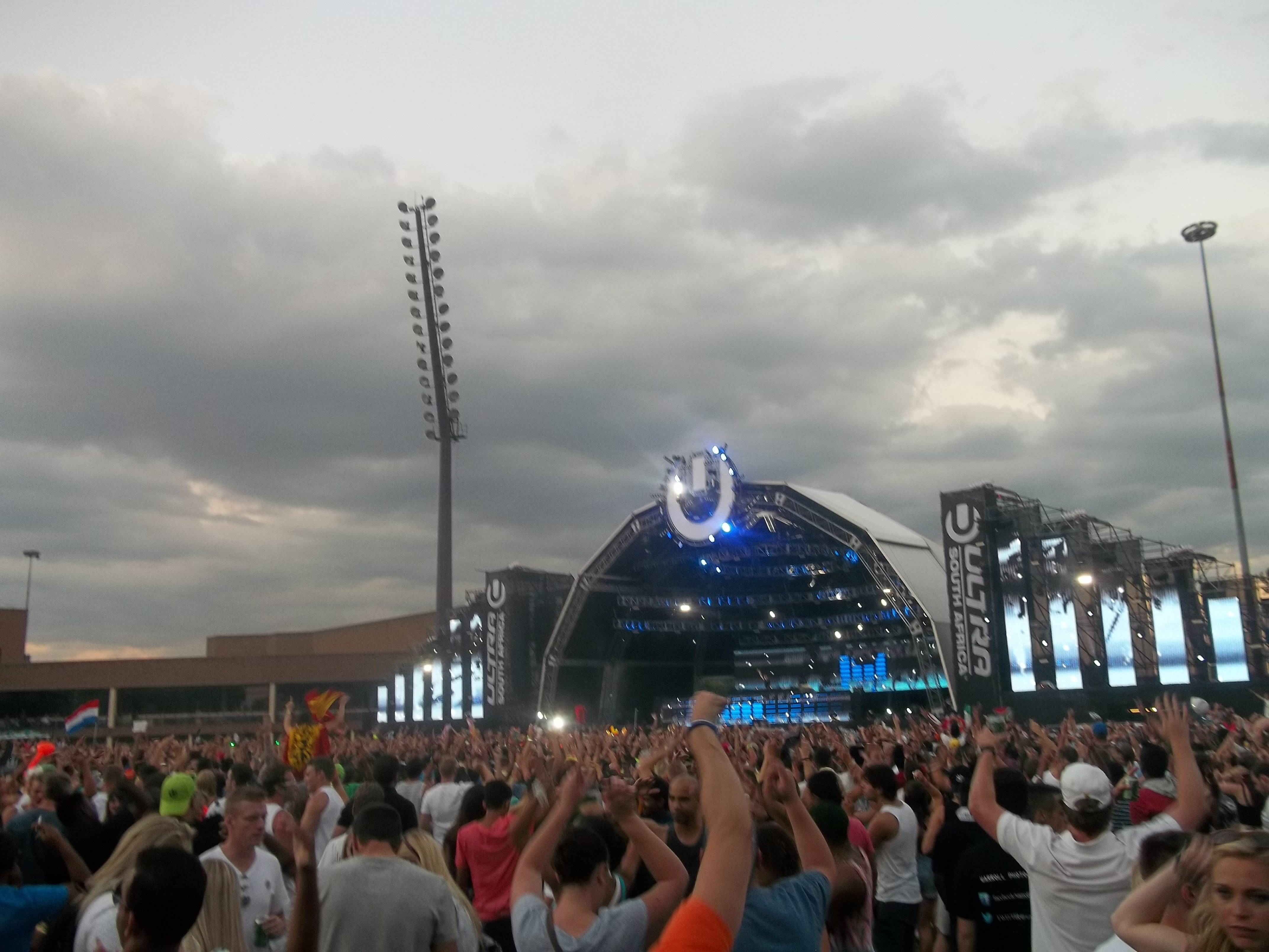 The Ultra Music Festival in South Africa, Johannesburg on 15 February 2014